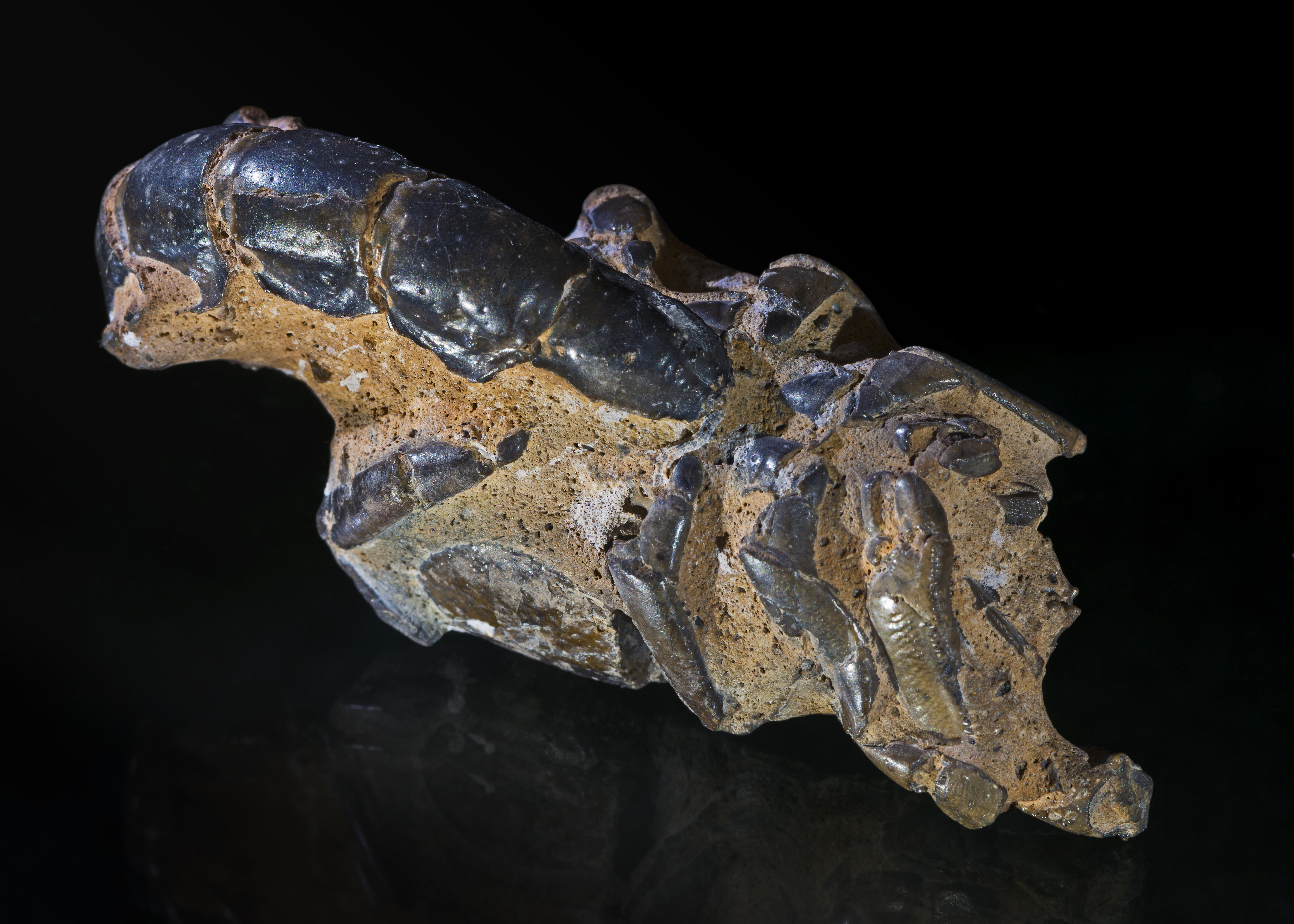 Thalassina anomala. Fossils of the mud lobster, have been collected over the years from various locations in the northern coastal regions of the Northern Territory and Queensland. Being a crustacean, Thalassina anomala has an exoskeleton which it sheds through its stages of growth. It is this hard outer form of lobsters from past times which forms the basis of the fossils that are now found. The full exoskeleton is rarely found fully preserved and most often the pieces are encased in quite solid sedimentary material which looks just like mud. Stage : Holocene Locality : Gunn Point, N Territory, Australia Size : 8.6x3.5x4.0 cm